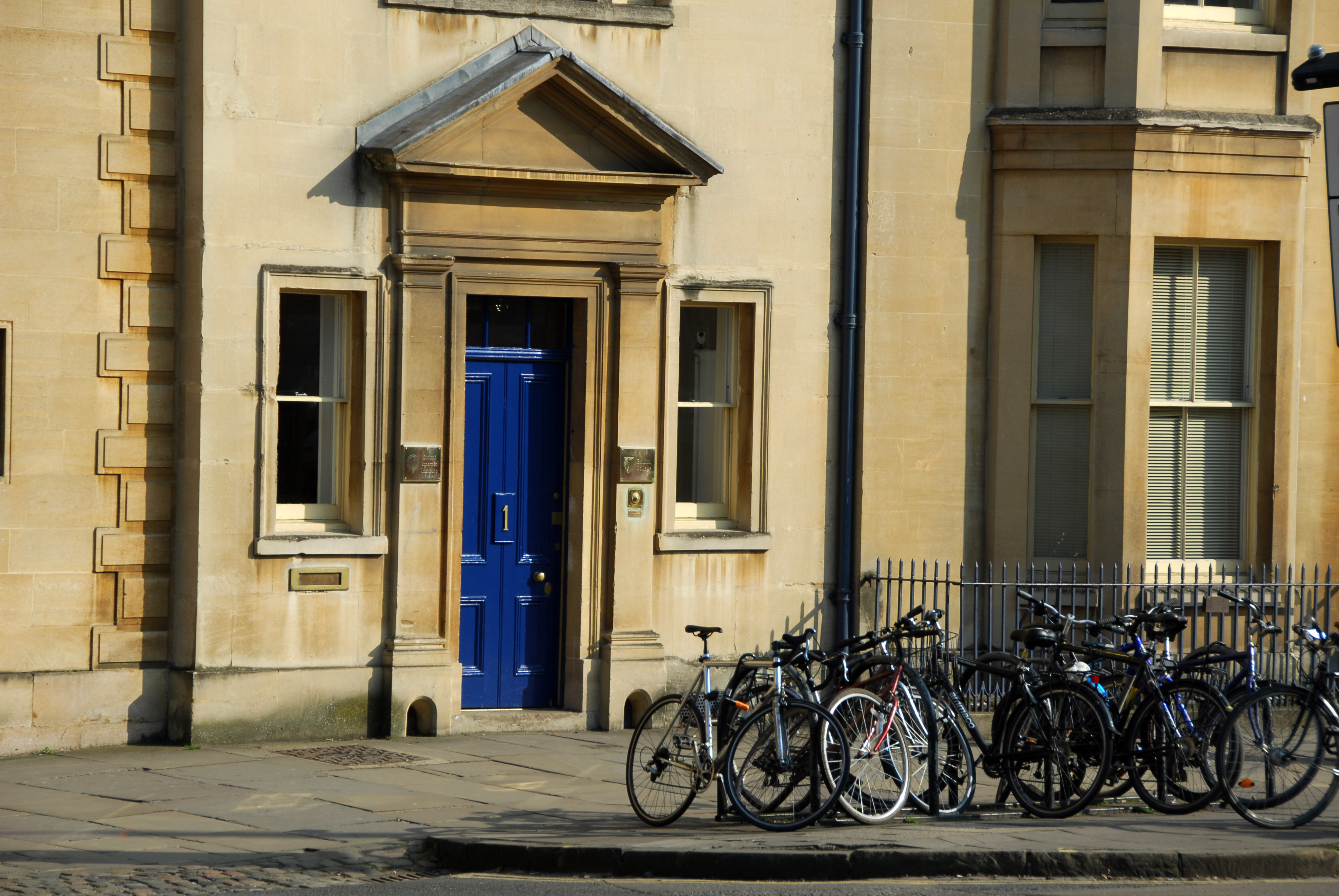 Front door of the Oxford Internet Institute on St Giles, Oxford, England.